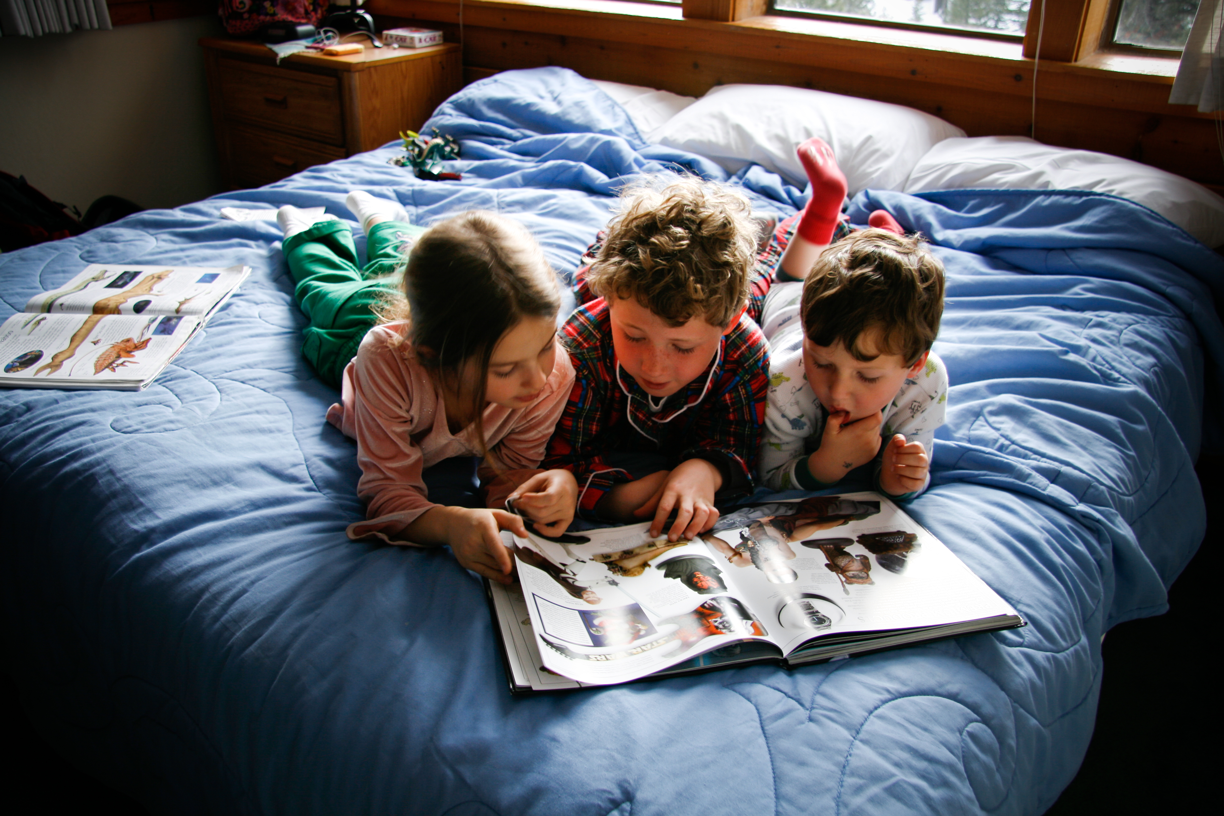 Studying Star Wars